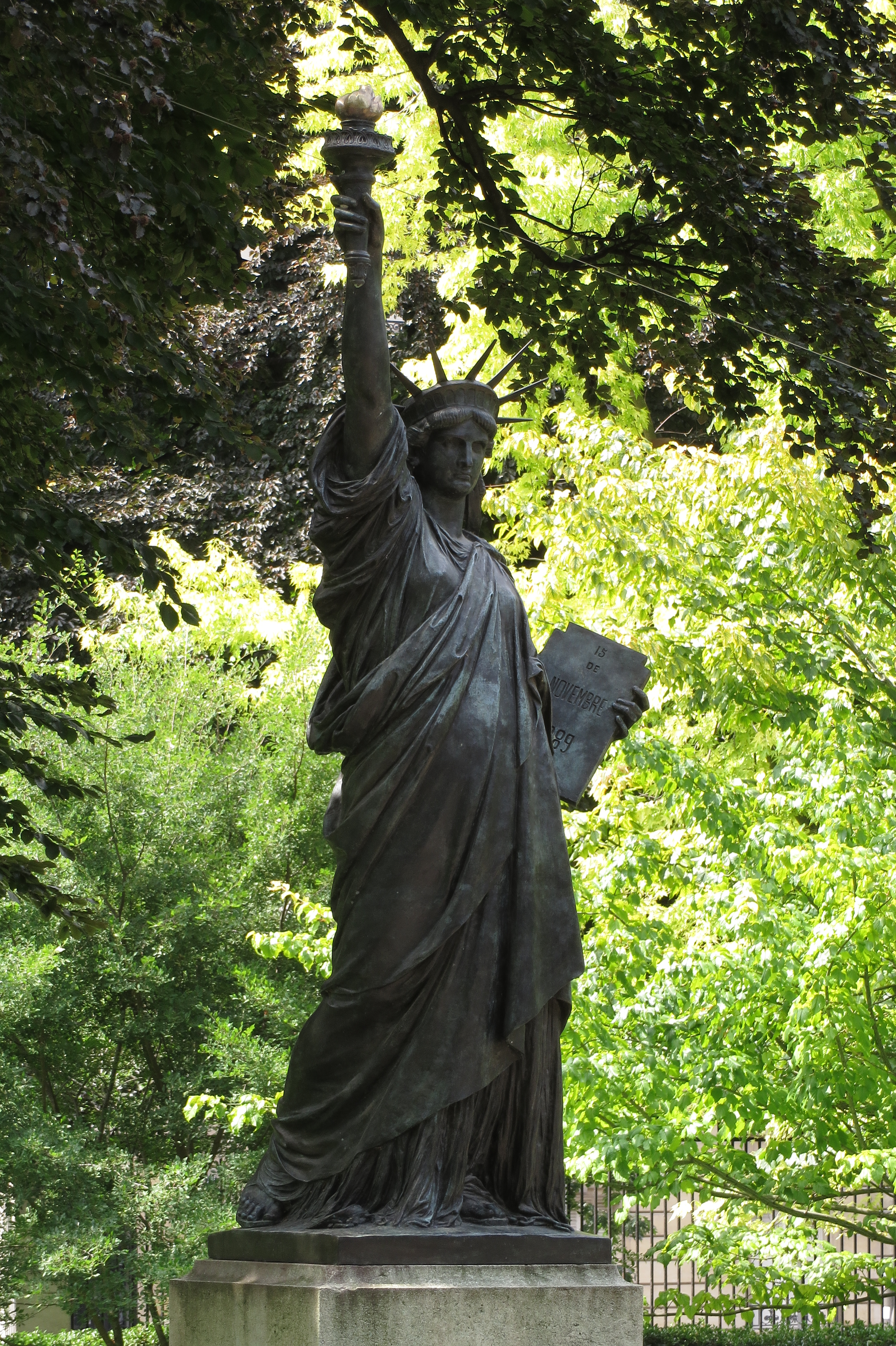 Statue of Liberty, Jardin du Luxembourg